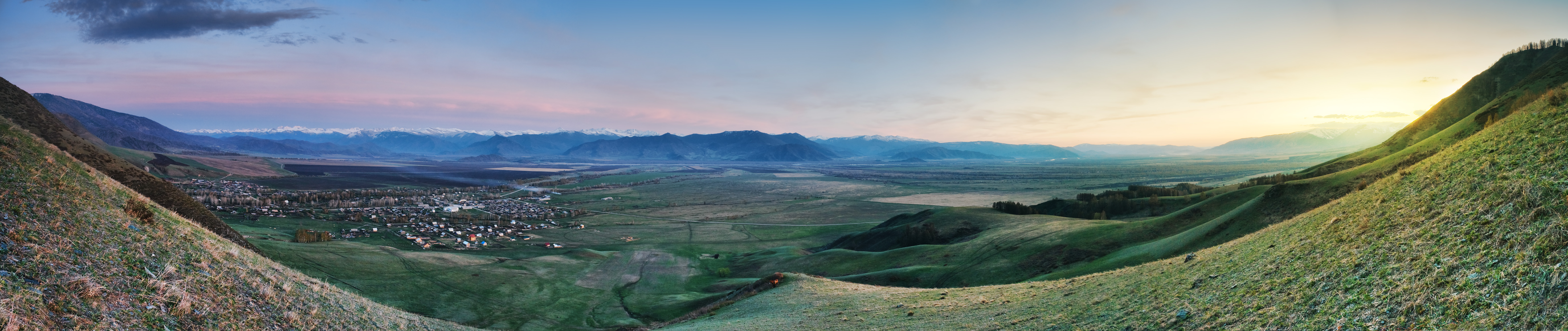 Uymon steppe, Altay